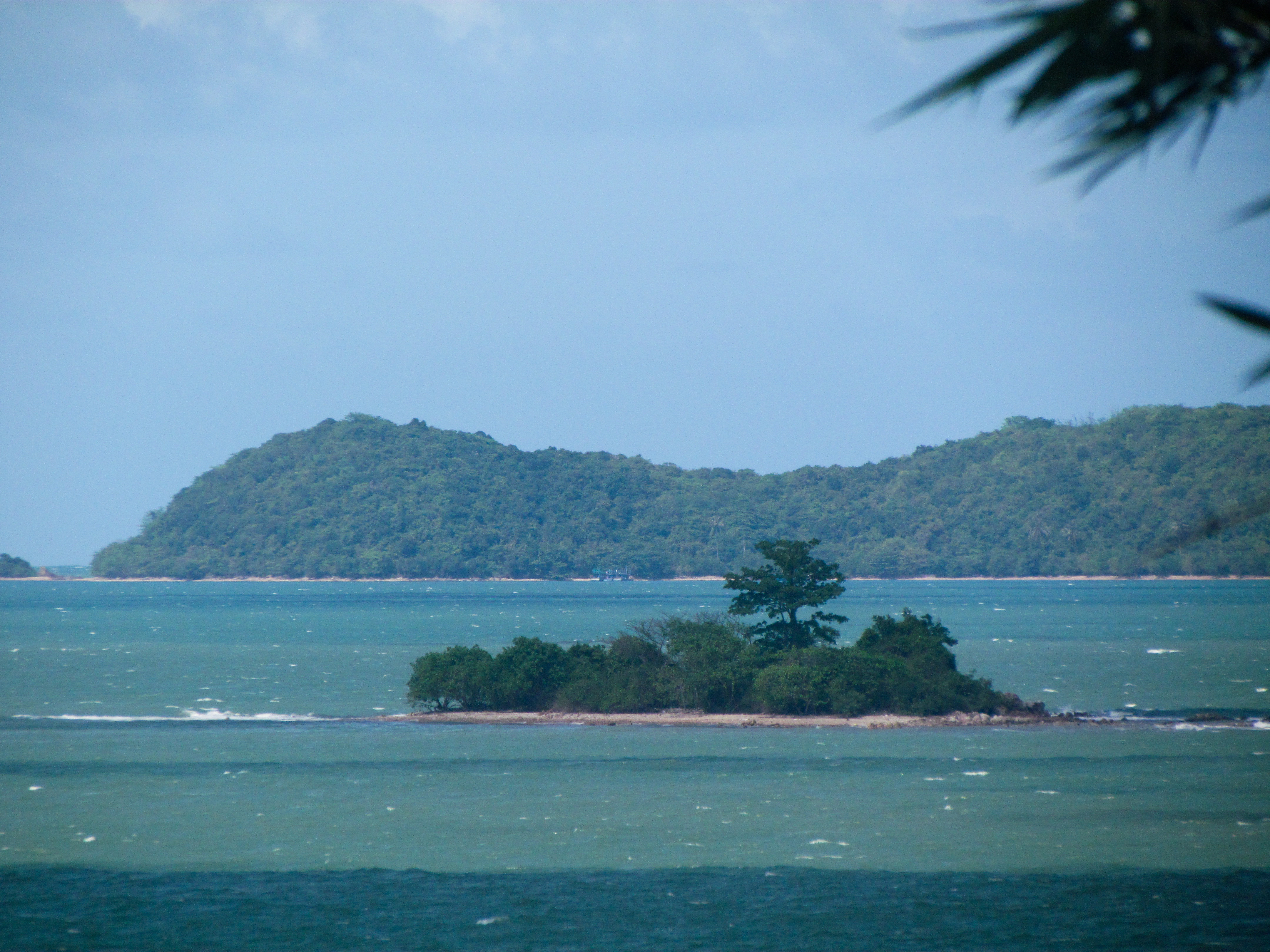 An islet in Bà Lụa Islands, VietnamTiếng Việt: Một đảo nhỏ trong quần đảo Bà Lụa của Việt Nam